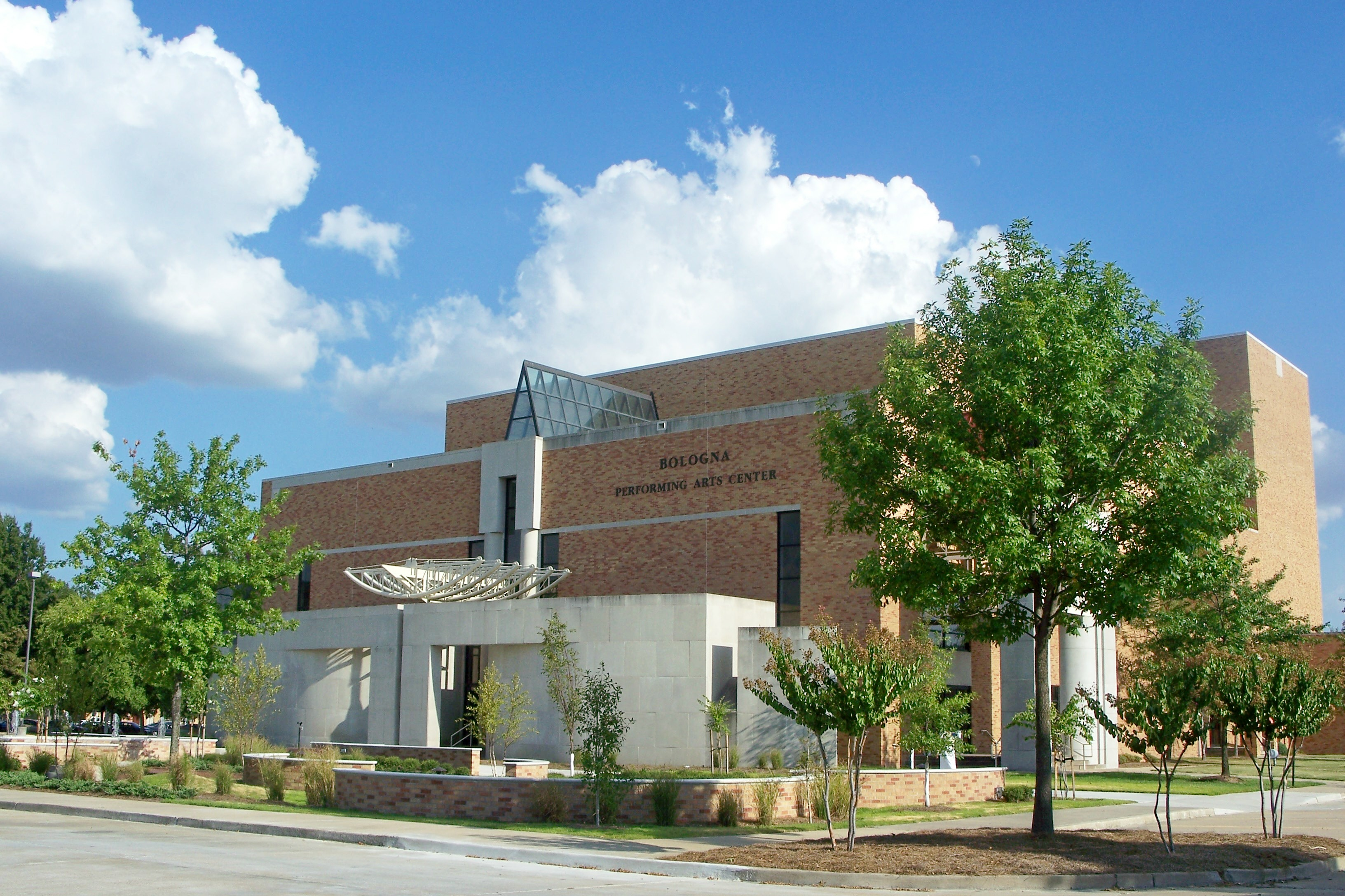 Façade of the Bologna Performing Arts Center in Cleveland, Mississippi, USA. I took the picture before several statues were placed in the garden in front of it.